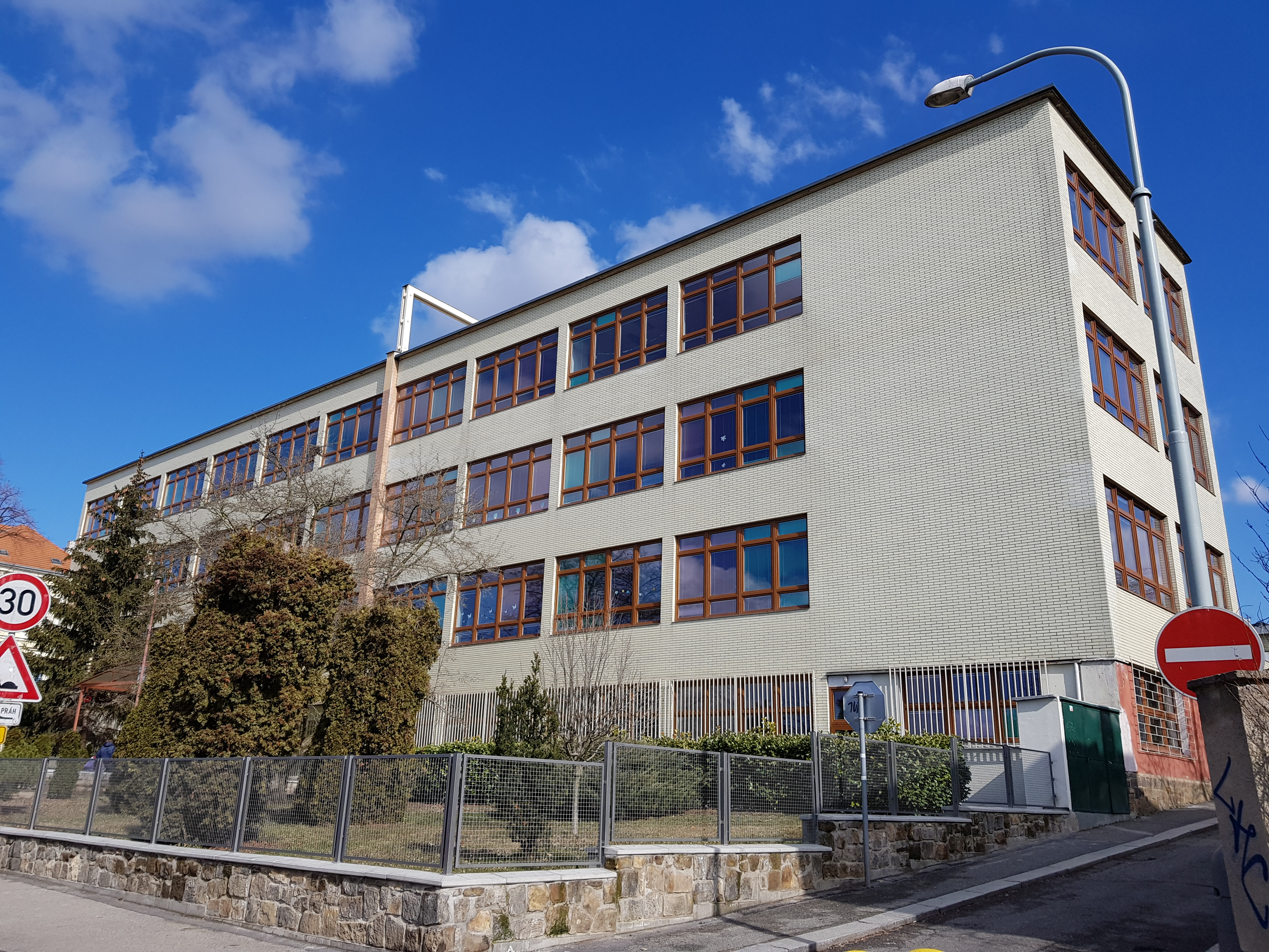 School No. 700 in Prague-Hloubětín